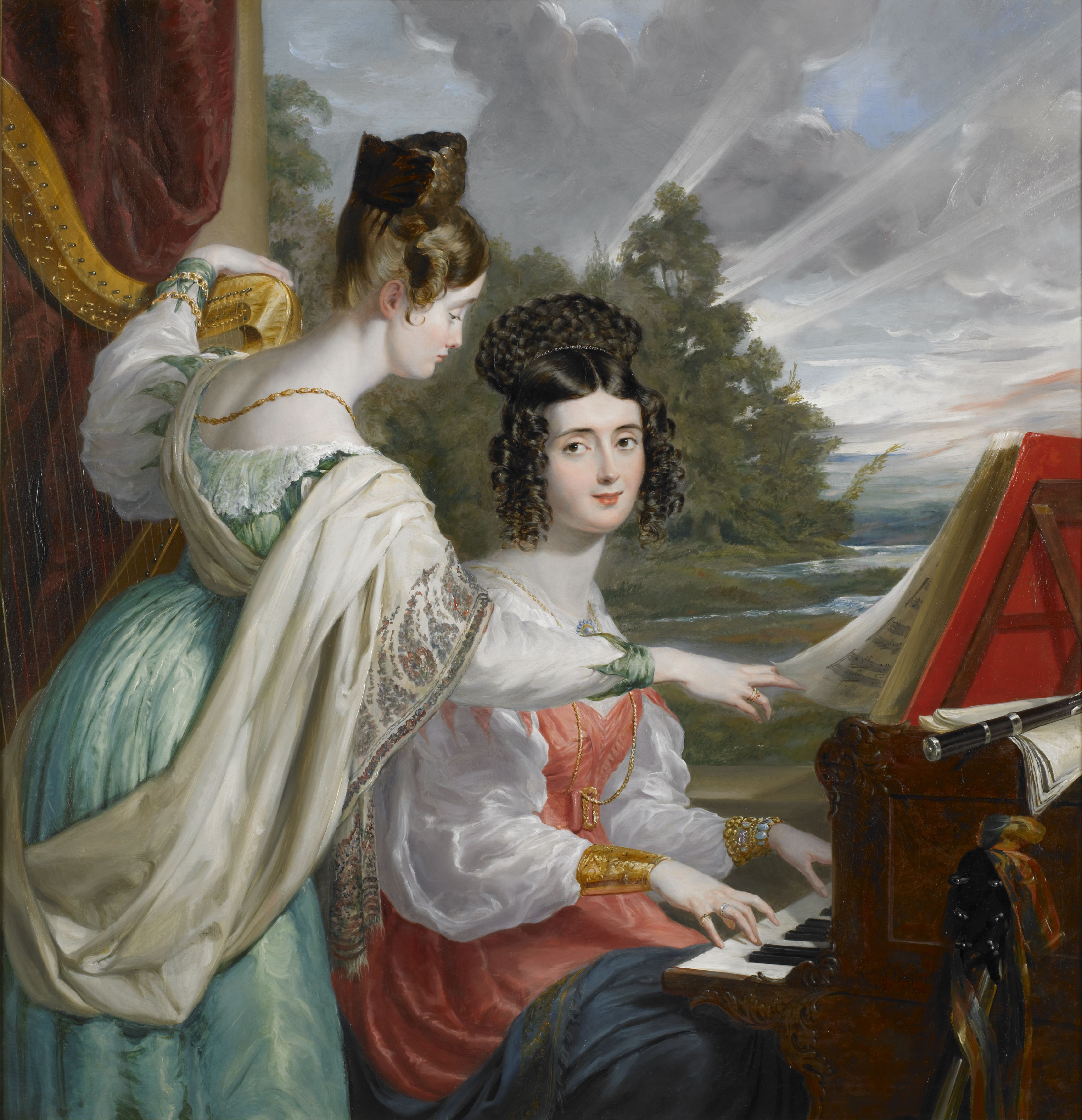 The Hon. Charlotte Stuart (1817-1861) (later Countess Canning), seated at the piano, and the Hon. Louisa Stuart (1818-1891) (later Marchioness of Waterford), daughters of Charles Stuart, 1st Baron Stuart de Rothesay, British diplomat (1779-1845)